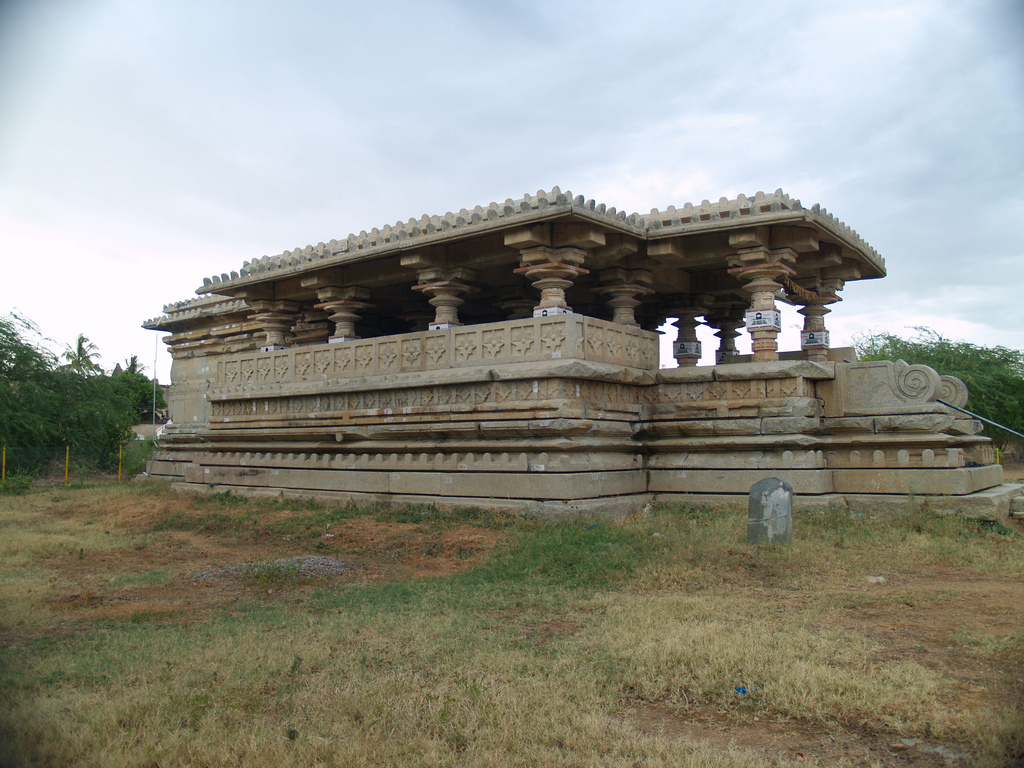 These are the picture of a temple in Domakonda, Nizamabad-Dist. This is a very old stone carved temple.